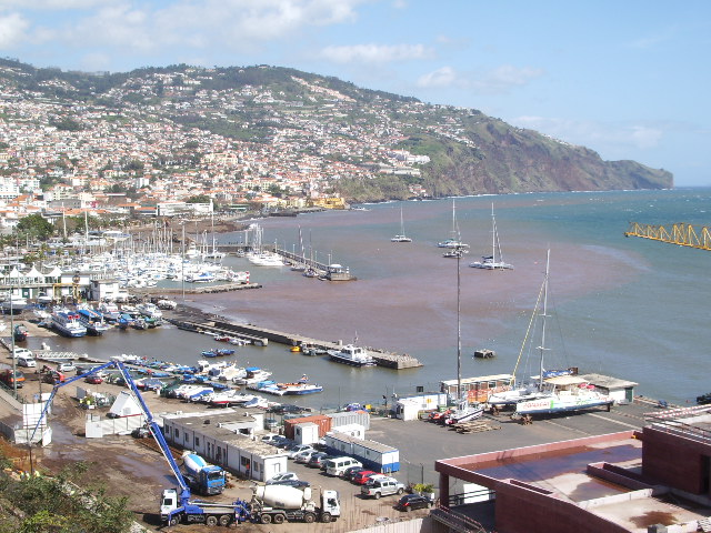 Madeira mudslide draining into the ocean in 2010.